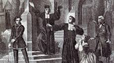 Stiffelio